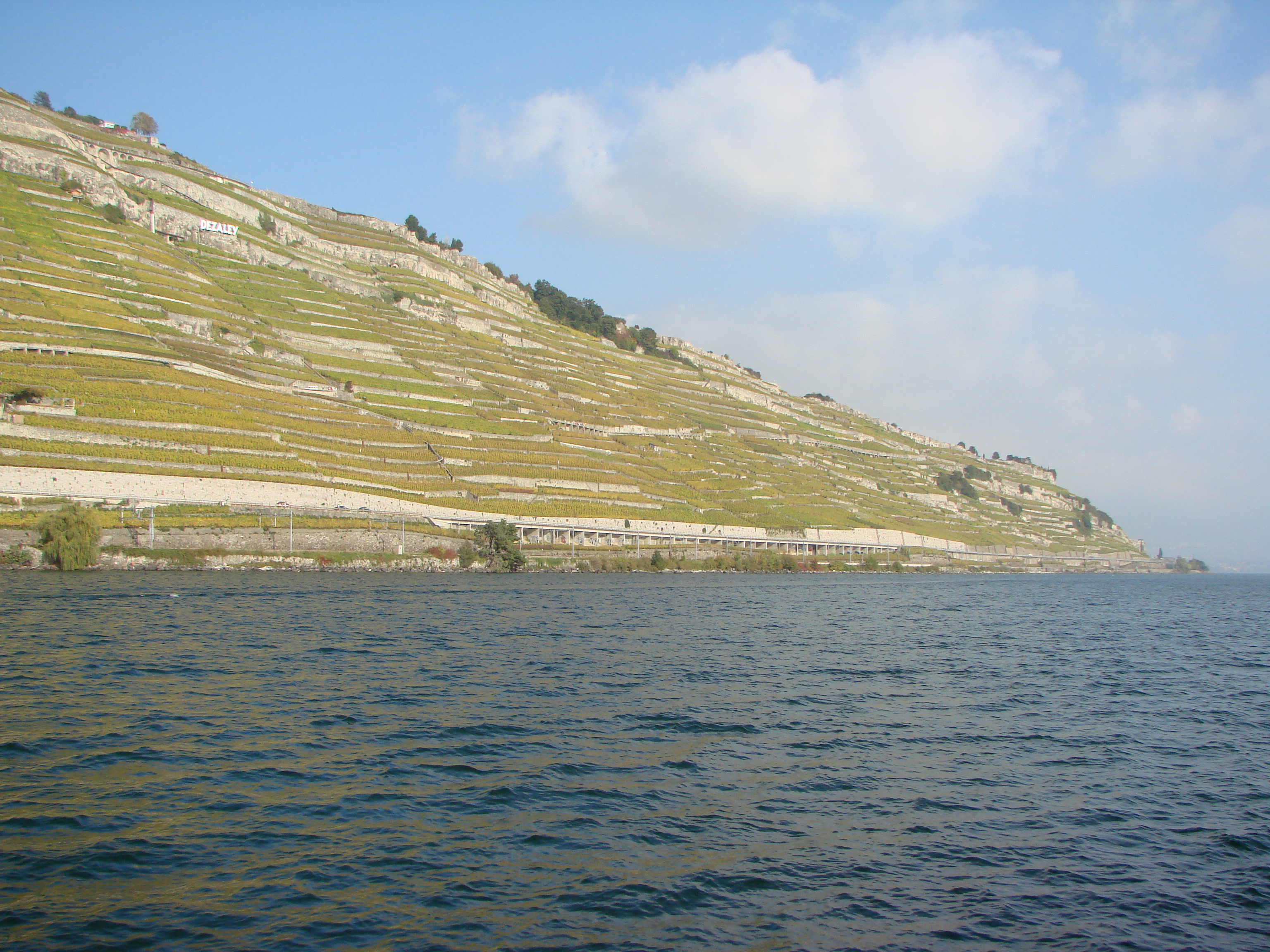 Lavaux Vineyard Terraces (Switzerland), World Heritage (UNESCO).